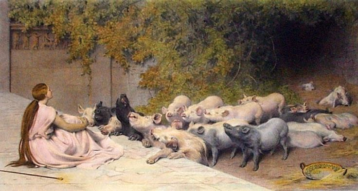 Circe and her swine, 1896